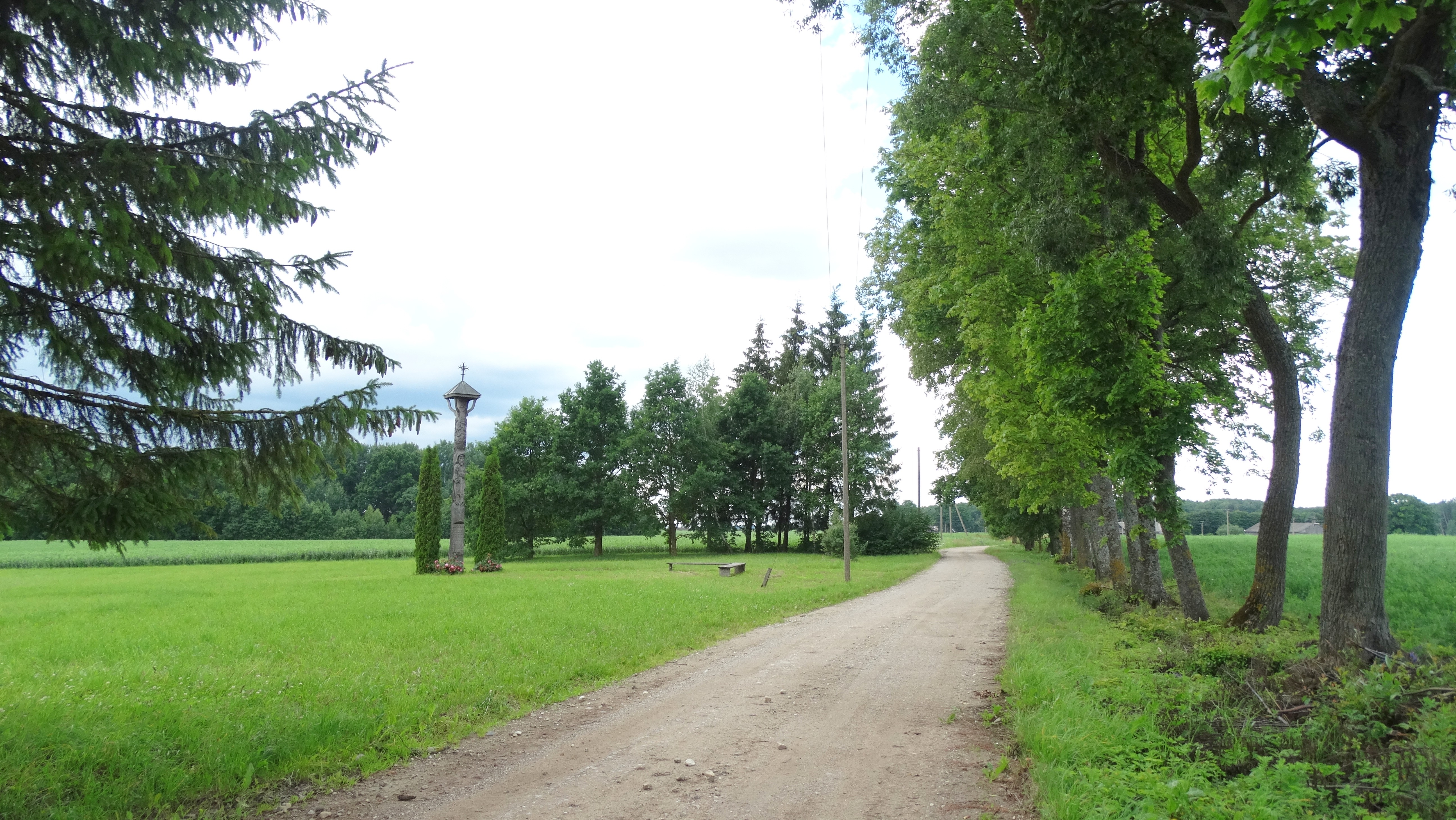 Stebeikiai, Pasvalys District, Lithuania